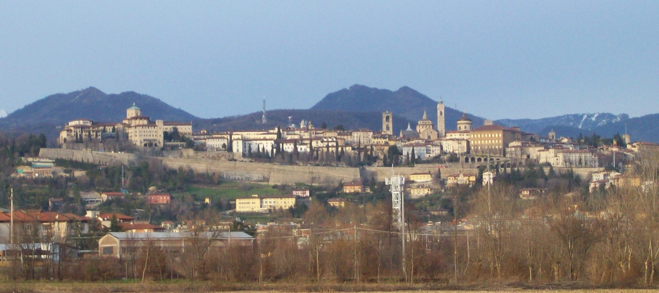 Skyline of Bergamo from La Trucca